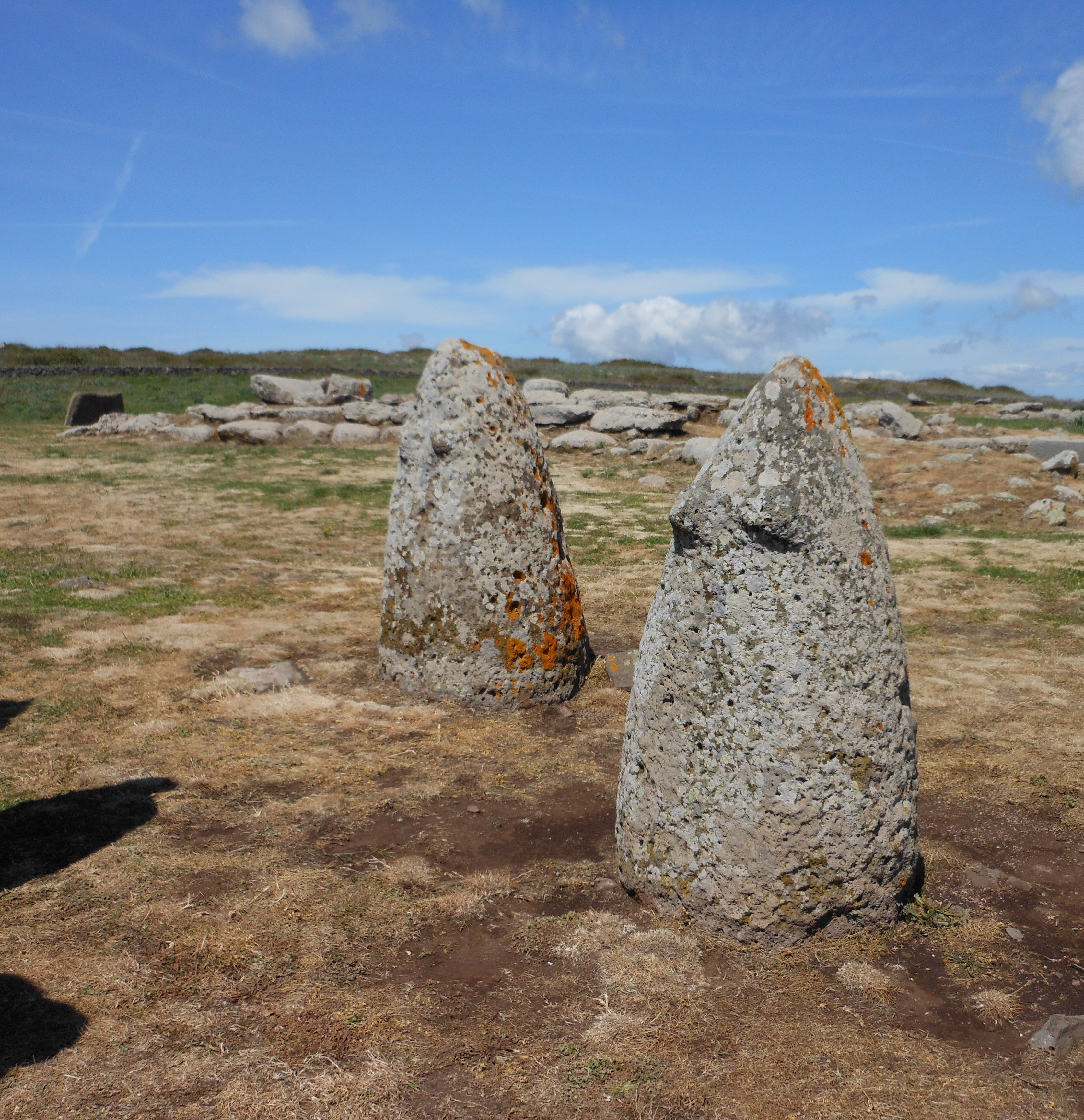 Anthropomorphic feminine baetyls at nuragic site of Tamuli (Macomer, Sardinia)